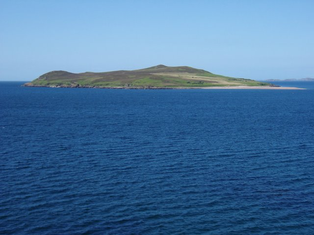 View towards Gruinard Island. Looking north from Fraoch Eilean Mòr. Gruinard Island is famous as the test site for anthrax in WW II.